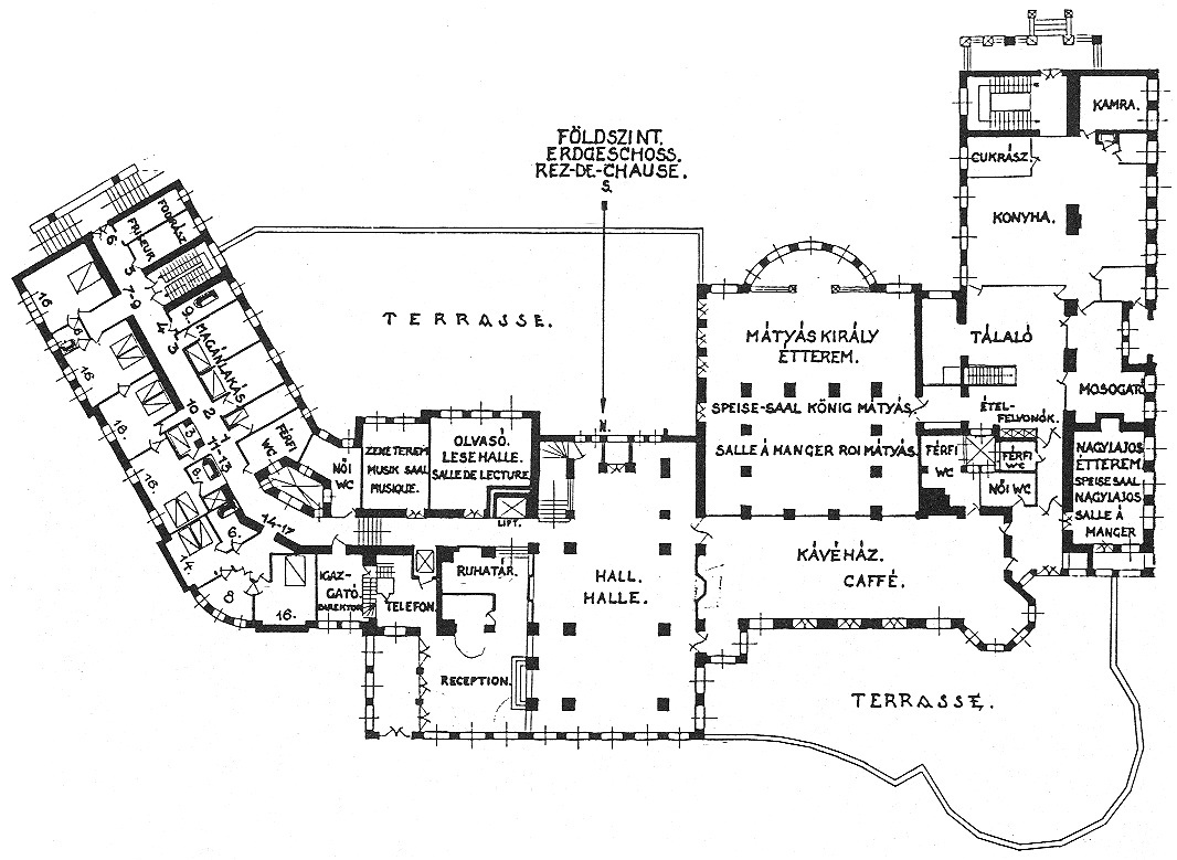 Palace Hotel ground floor plan, Lillafüred, Hungary